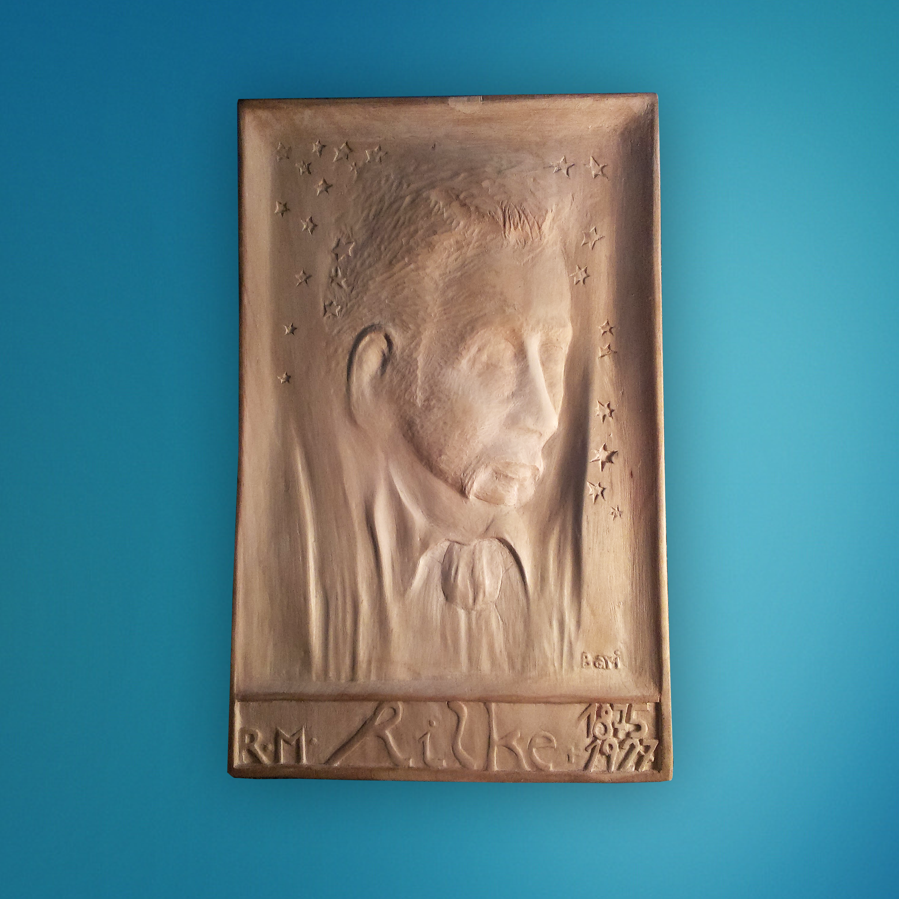 Portrait of Ranier Maria Rilke, work created by low relief technique by czech woodcarver and designer Ludek Bari